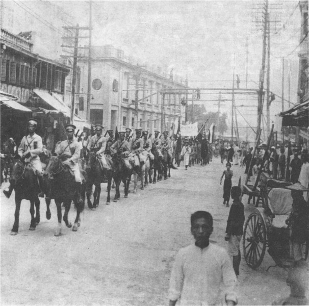 Chinese cavalry in Harbin. The conflict on the Manchurian Chinese Eastern Railway, 1929